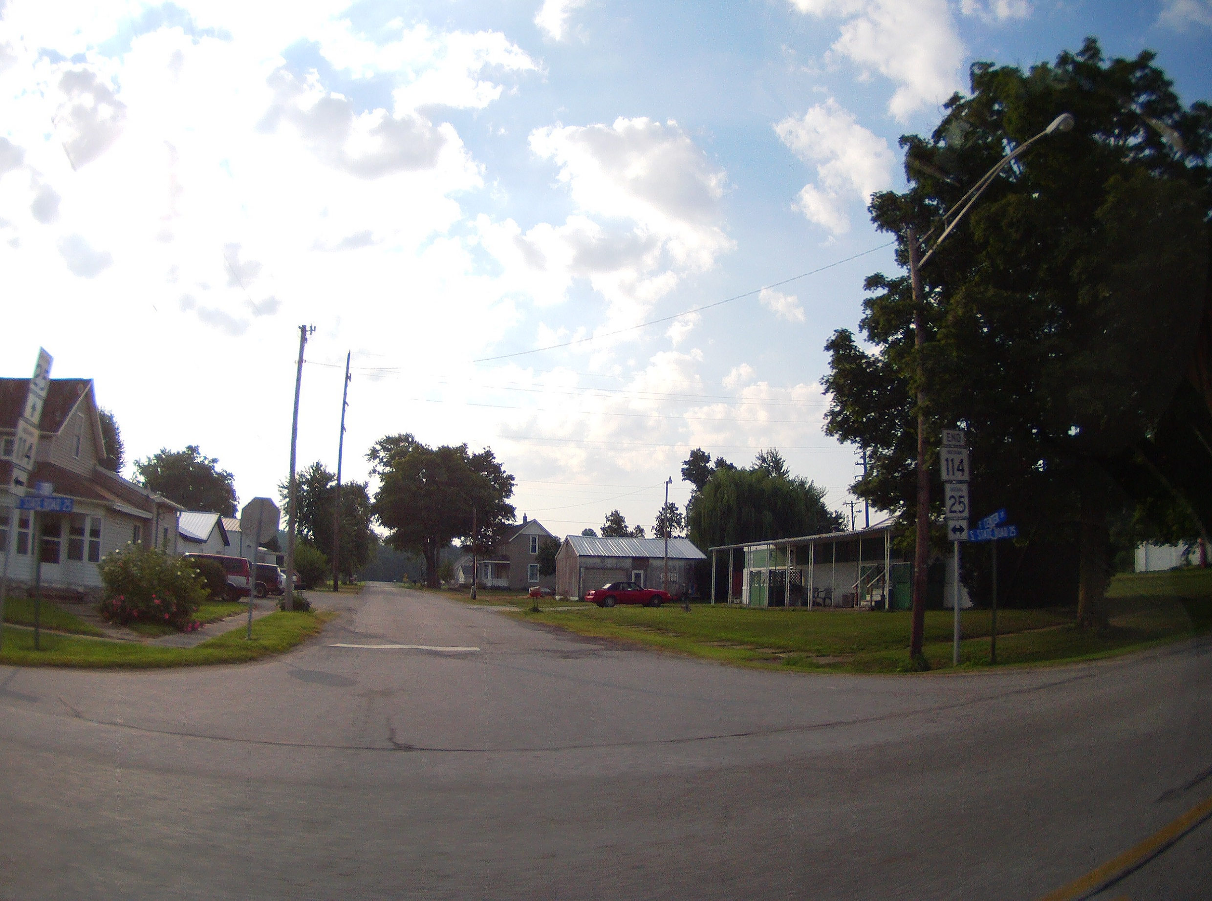 Intersection of Highway 25 and Center Street in Fulton, located in Liberty Township, Fulton County, Indiana.